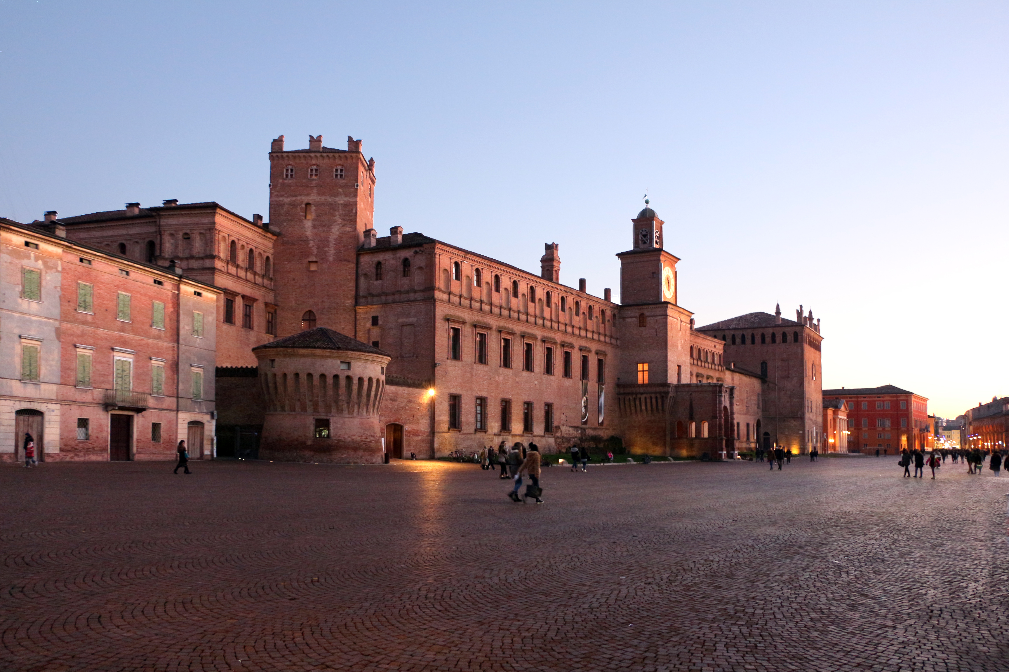 Palazzo dei Pio